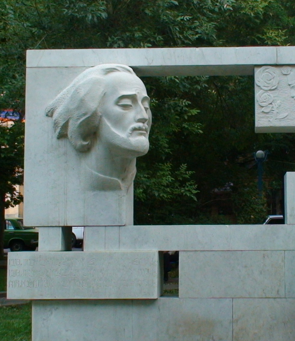 Sayat-Nova, Erevan